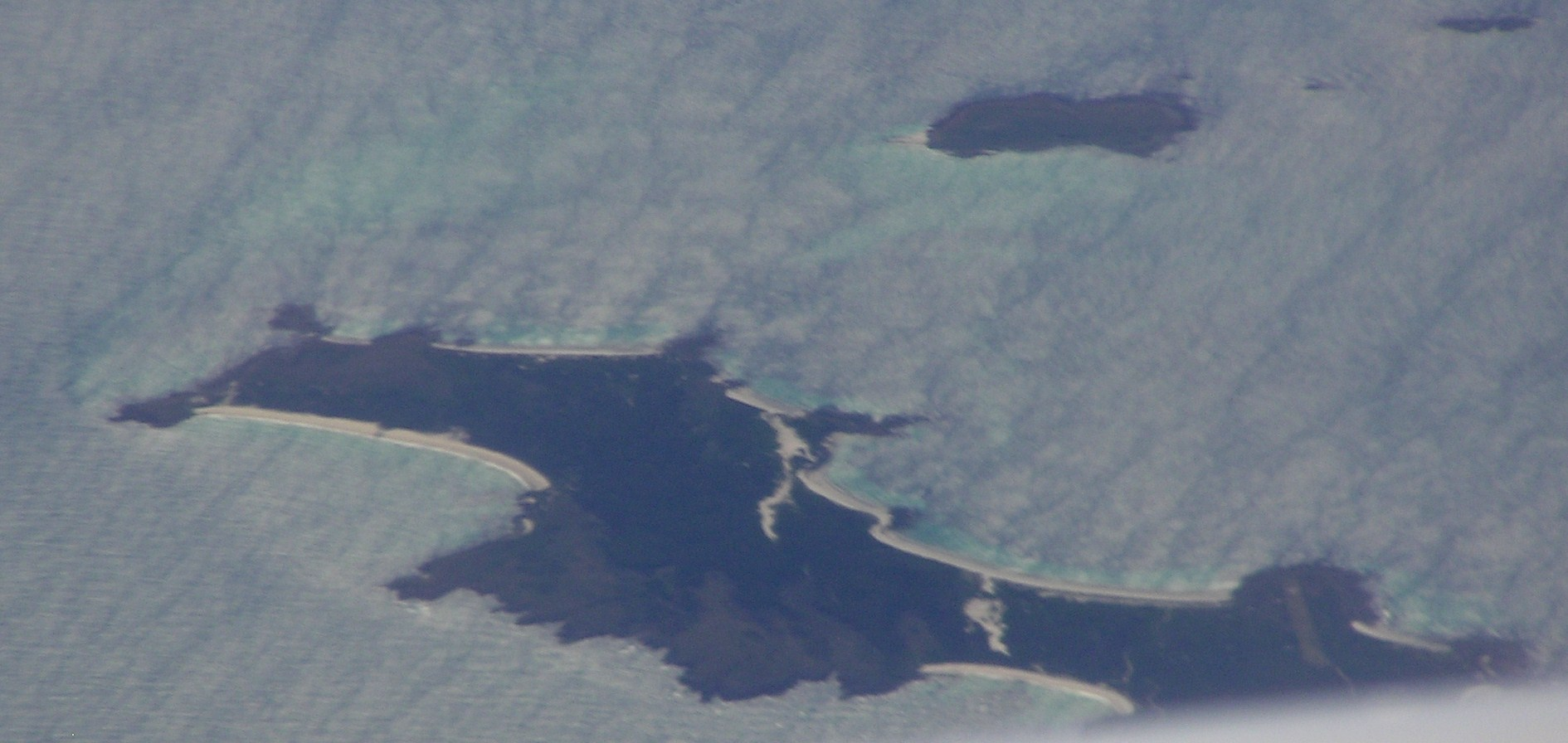 Swan Island and Little Swan Island, near Tasmania aerial photo